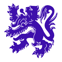 Belgian Lion